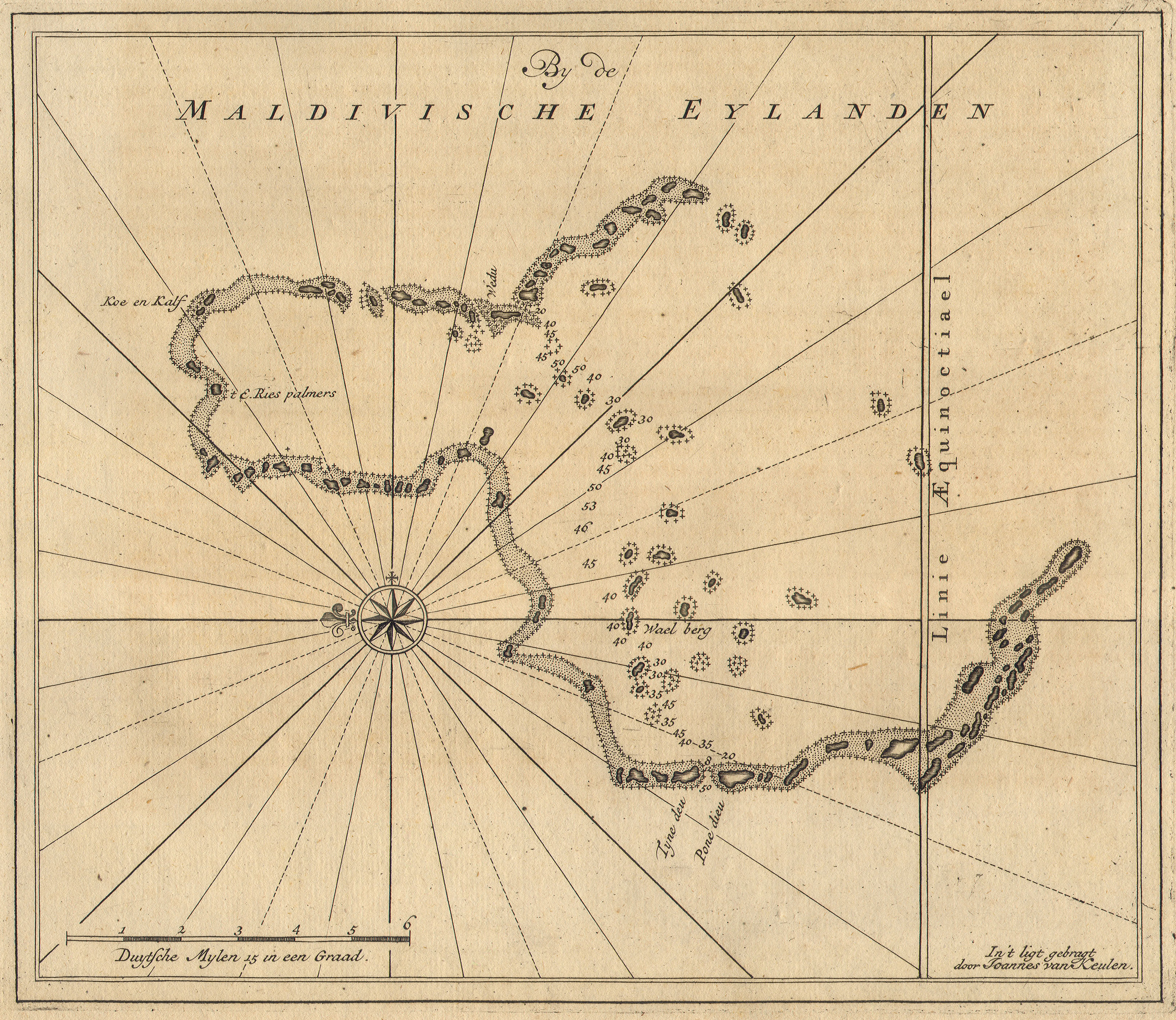 1753 Van Keulen Dutch map of Huvadu atoll, Highly inaccurate.